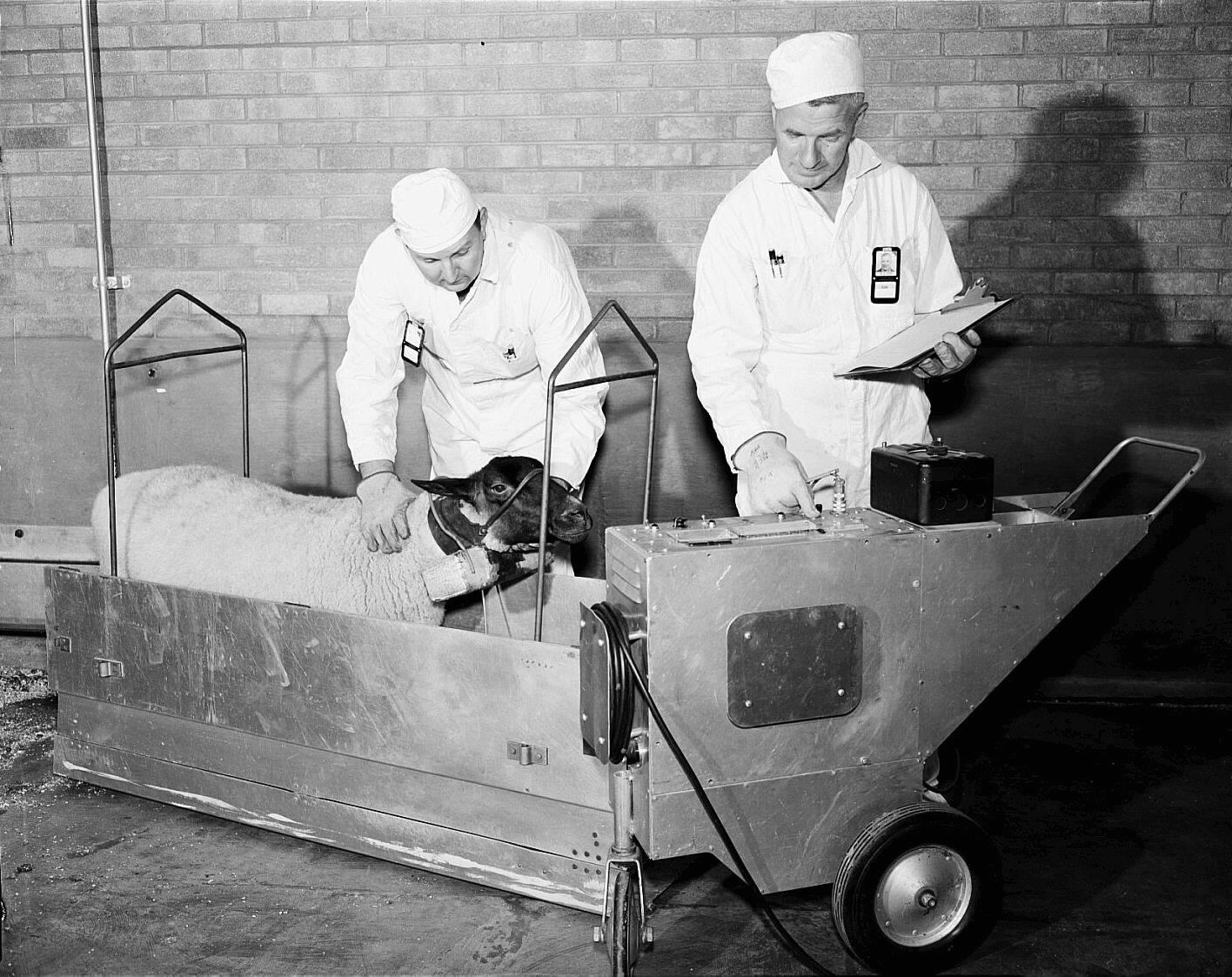 Hanford scientists testing a sheep's thyroid for radiation.